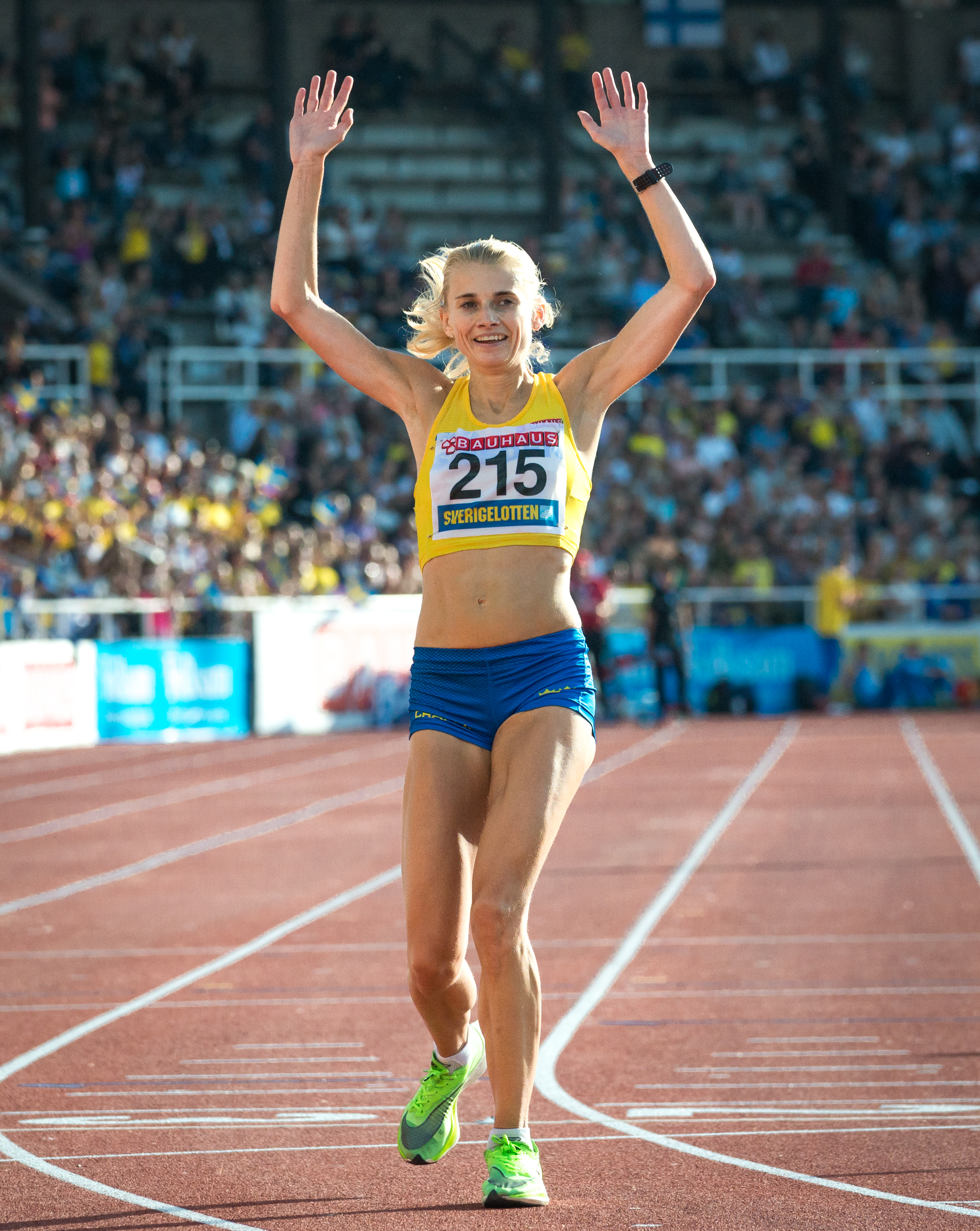 Hanna Lindholm wins 10,000 metres during the Finland-Sweden athletics international 2019 at the Stockholm Stadium in August 2019.